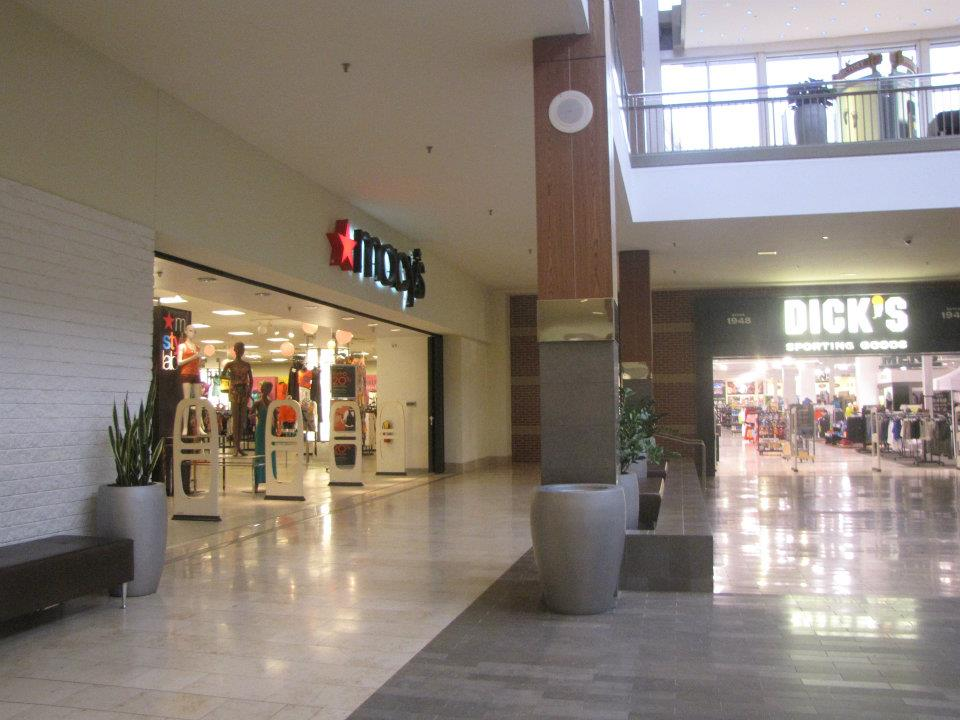 Dick's Sporting Goods and Macy's, this used to be Davison's and Macy's until the anchor Macy's moved to the former Rich's and the building was partly demolished to make way for the Promenade.